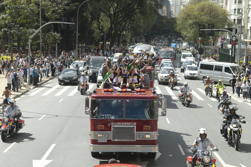 Brazilian Women's Volleyball Team parades in São Paulo, Brazil,after winning a second Olympic gold medal at London 2012